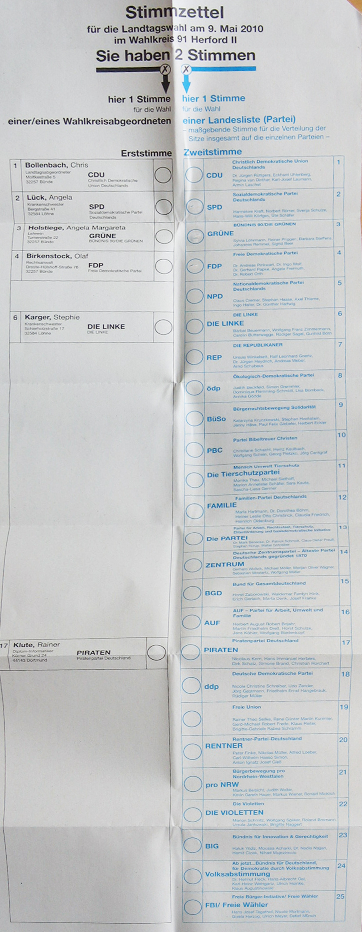 Ballot for the state elections in North Rhine-Westphalia in 2010.